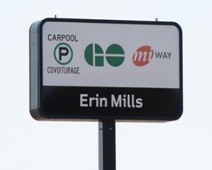 Erin Mills GO Station sign